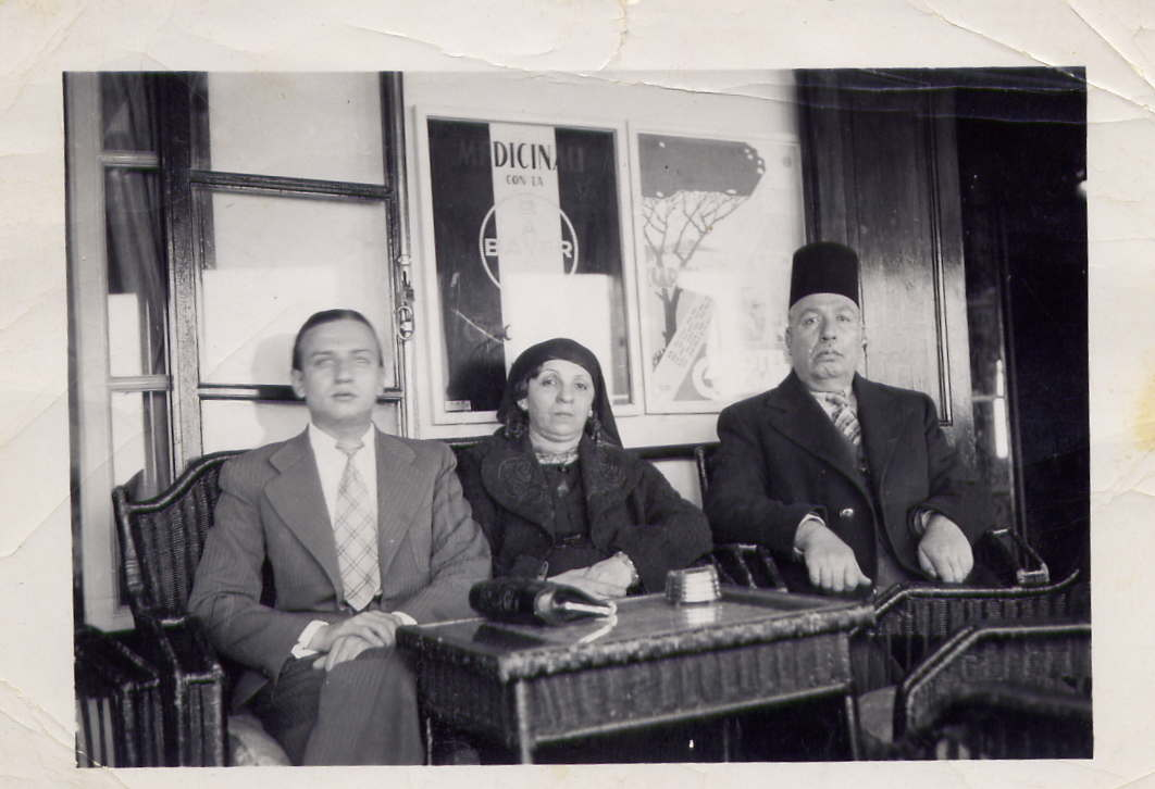 From left to right: Dheeuh (son), Souad (wife) and Khaled Al Hakim